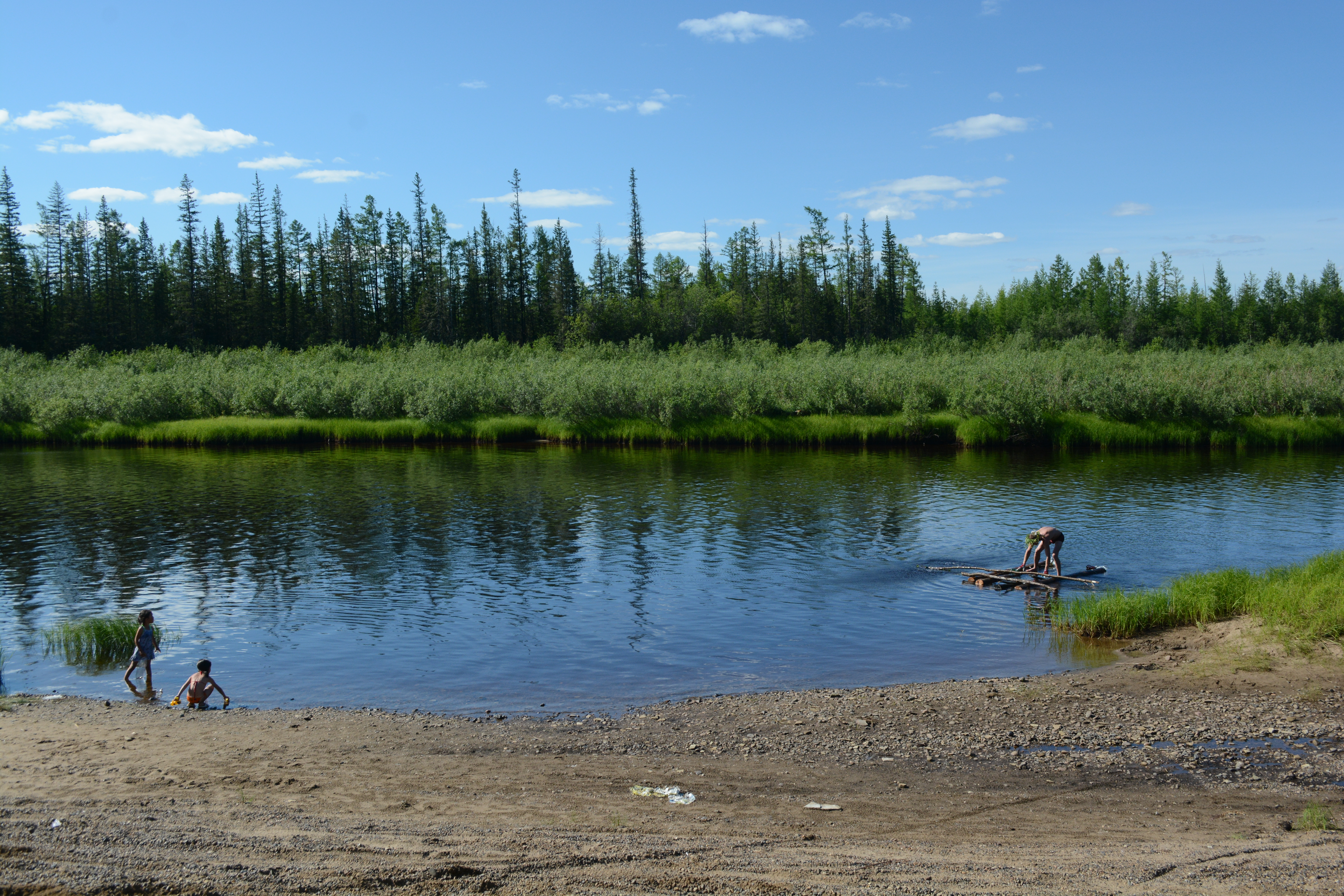 Ochchuhuy-Botuobuya River, Sakha (Yakutia) Republic, Russia